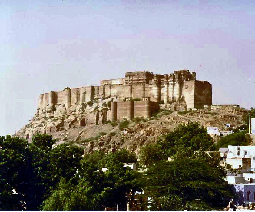 I took this photo on a trip through Rajasthan in 1981.